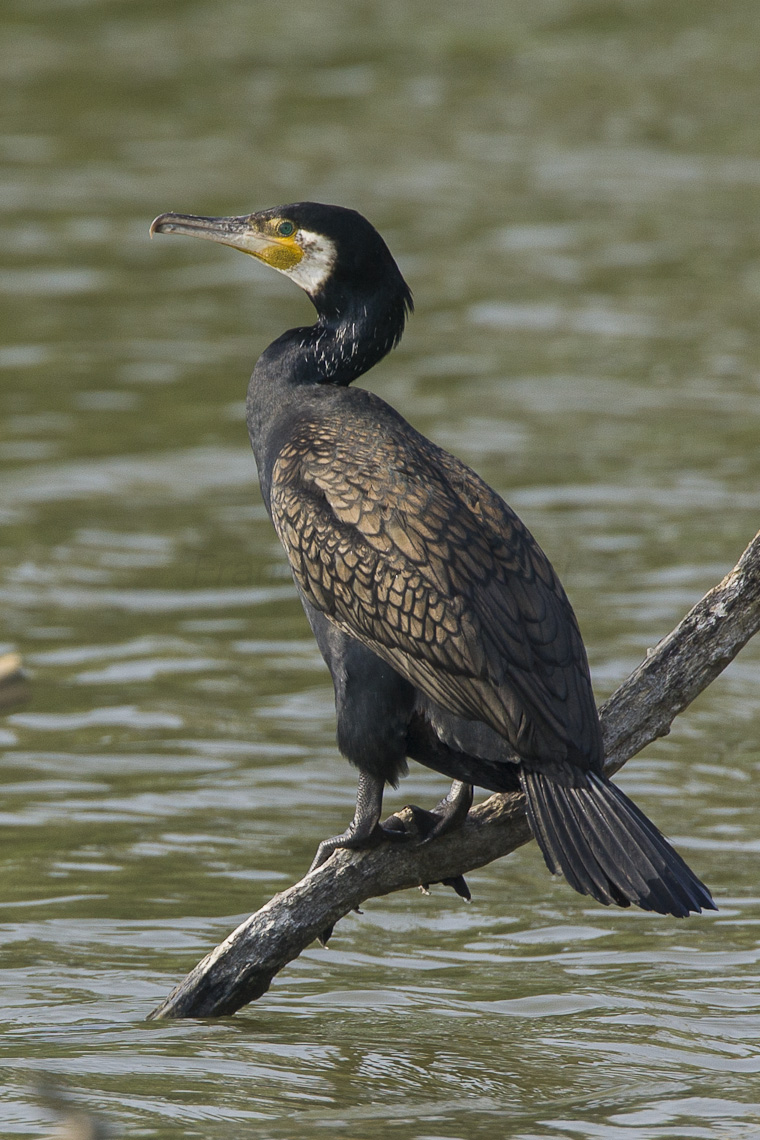 Great Cormorant - Flevoland - Netherlands_6035